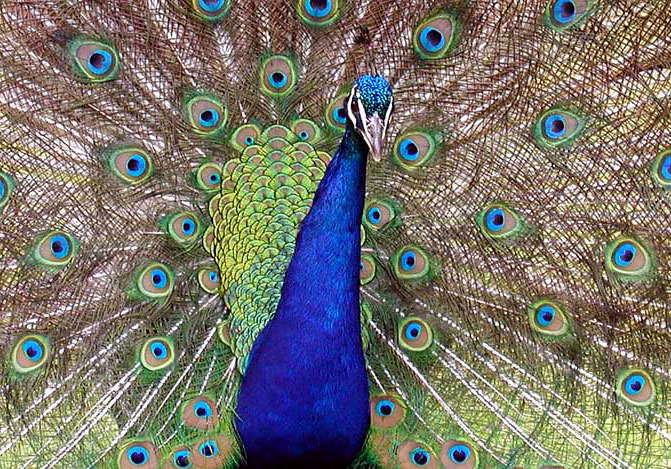 Peacock detail at Paignton Zoo, Devon, England Taken by Adrian Pingstone in July 2003 and released to the public domain.